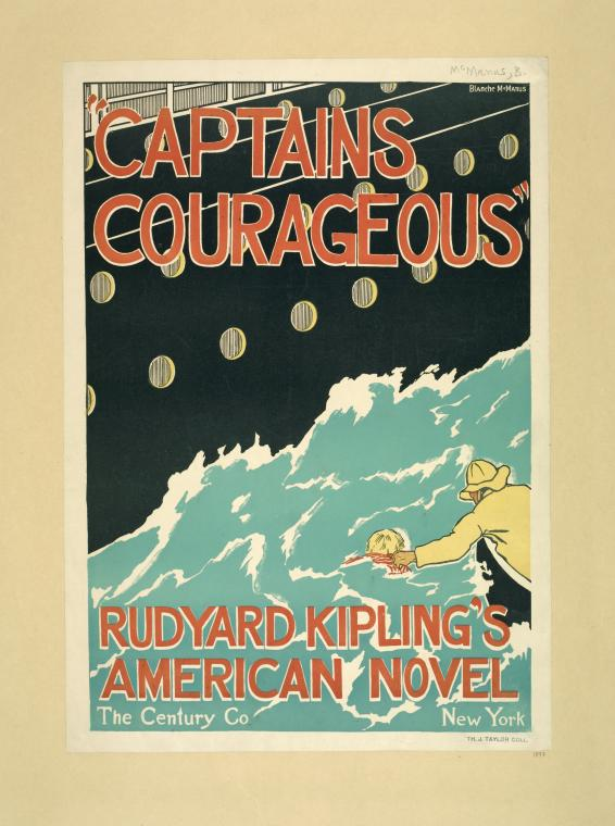 The poste illustration for "Captains Courageous," published by The Century Company, New York, circa 1893. Courtesy of the New York Public Library Digital Collection.